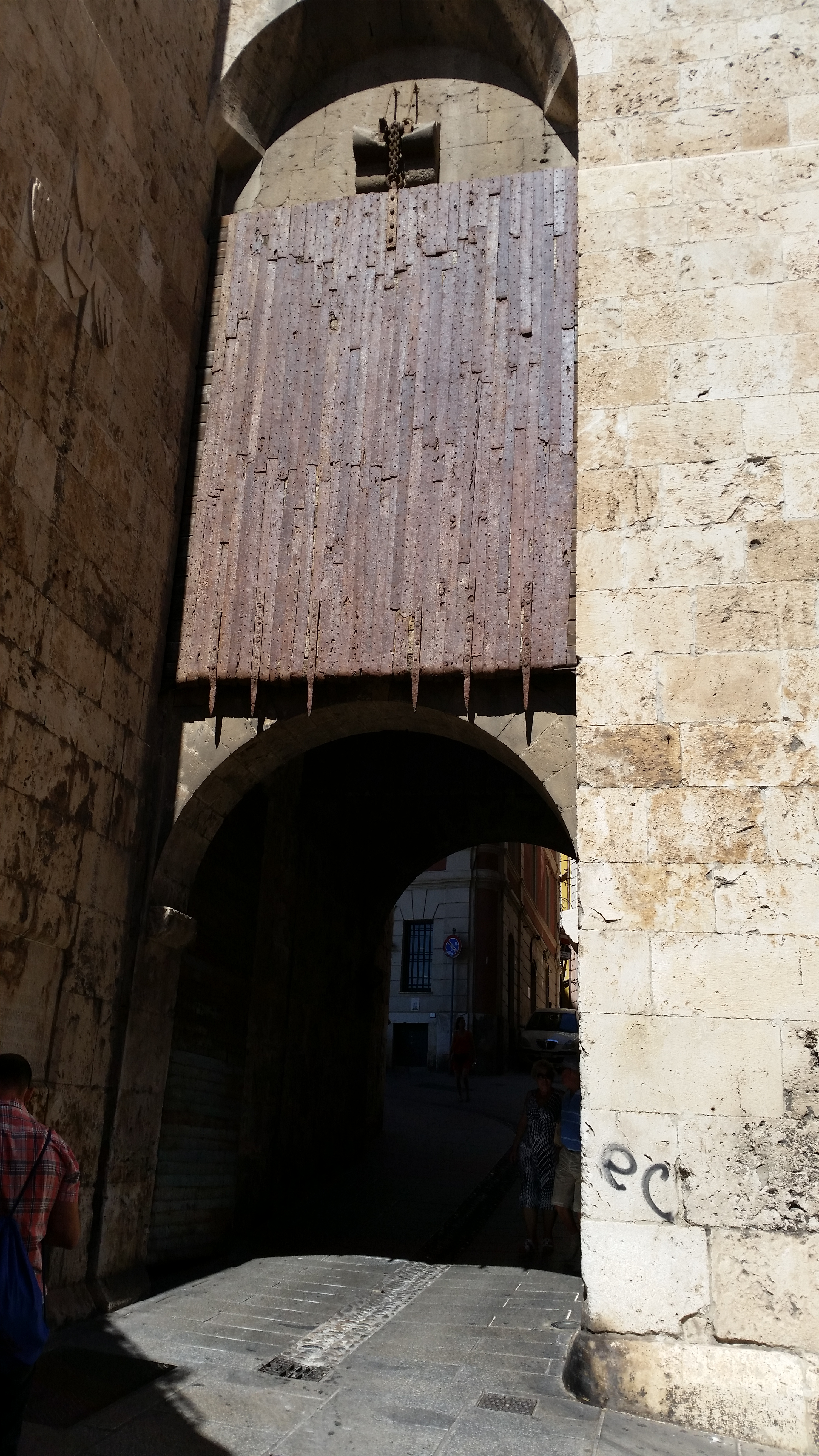 Torre dell'Elefante, Cagliari